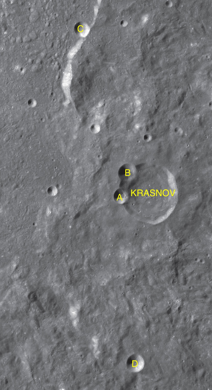 Parts of the charts LAC-91, LAC-109 used for the presentation